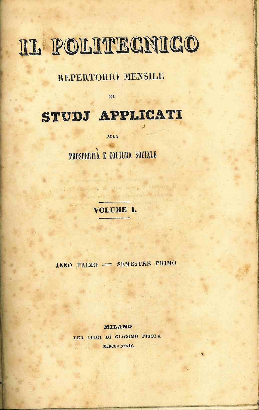 Front page of the first issue of "Il Politecnico" by Carlo Cattaneo (1839)